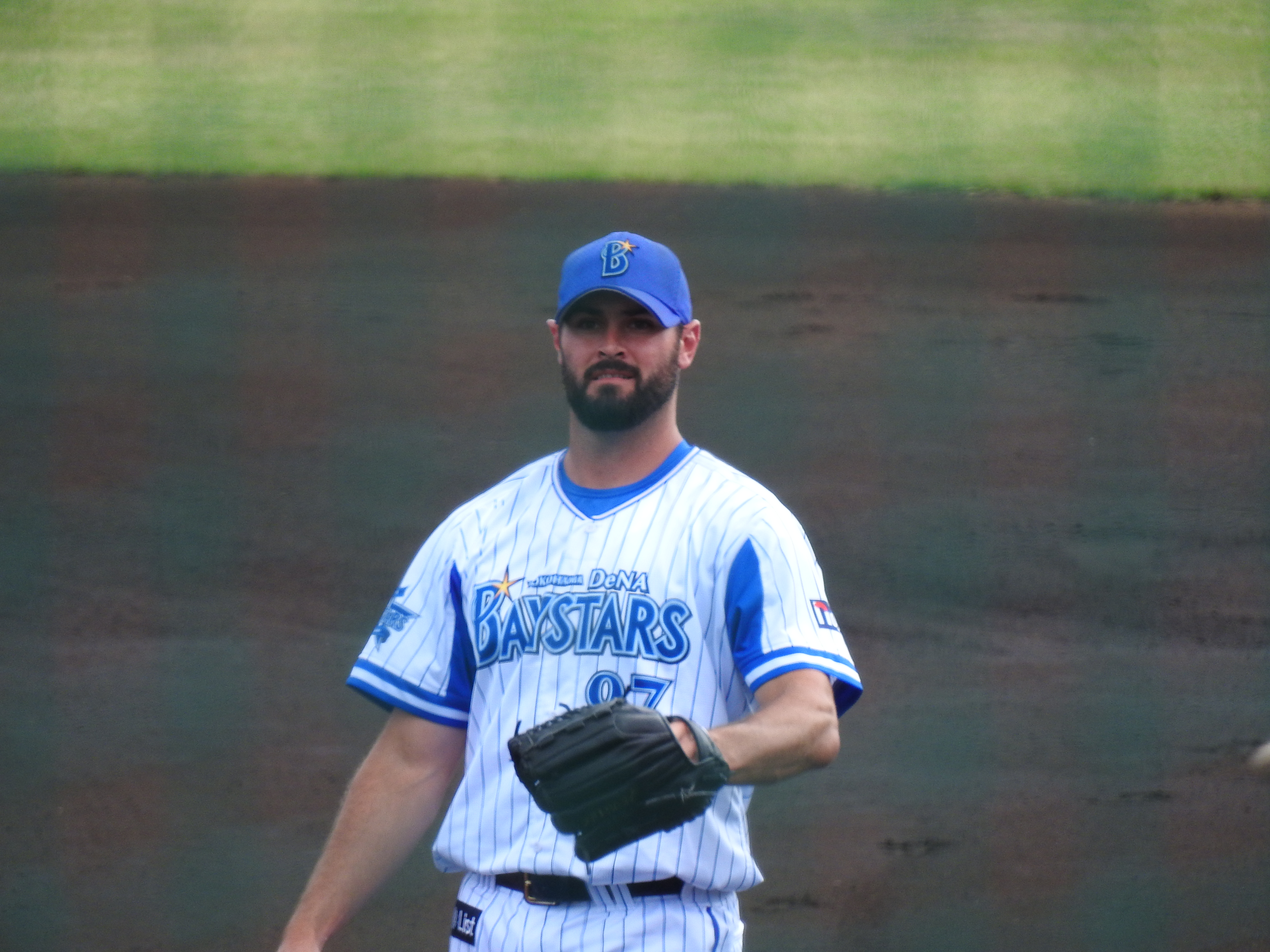 baseball player